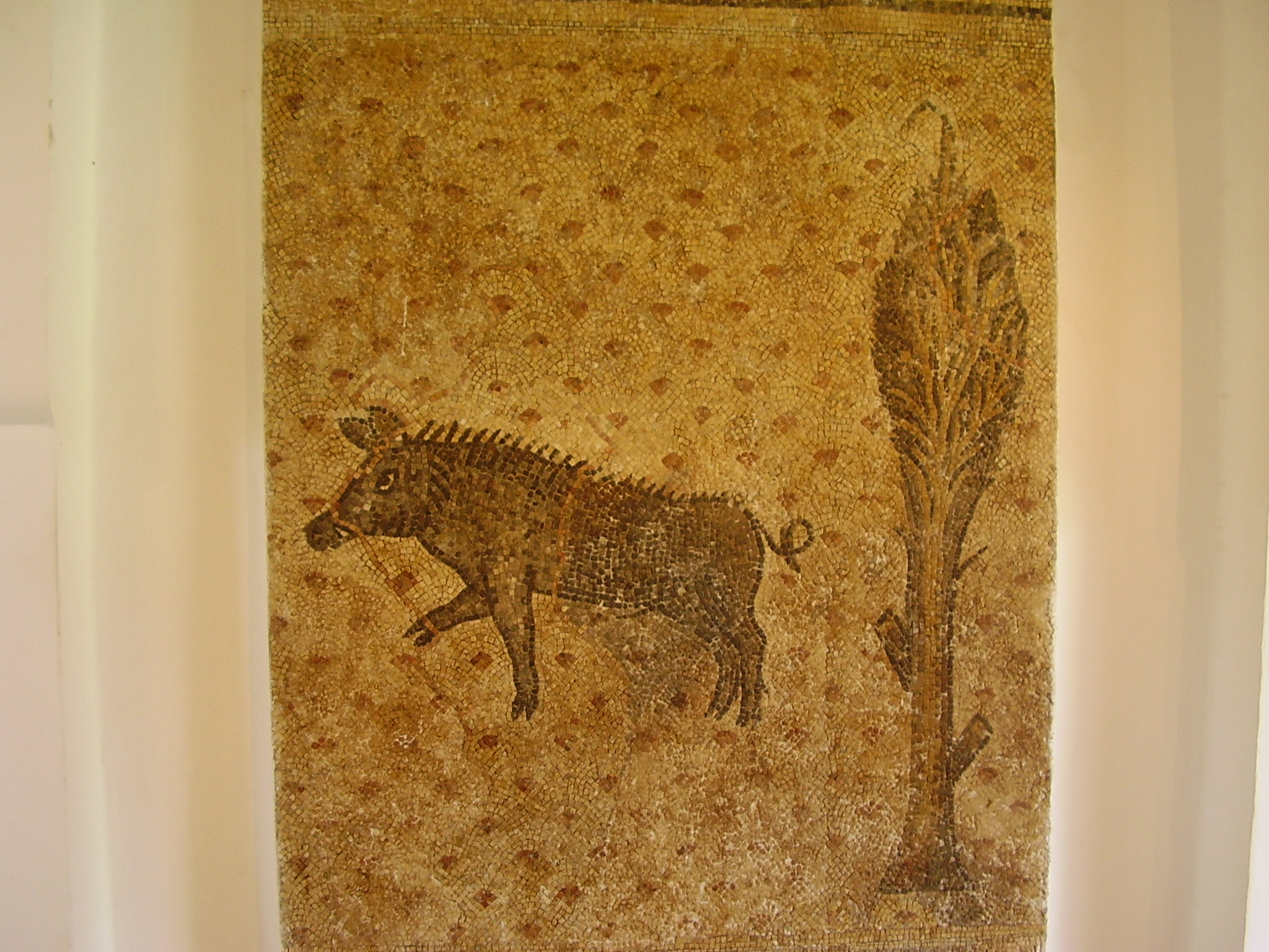 mosaic in kibbutz hanita פסיפס של חזיר וברוש בחניתה